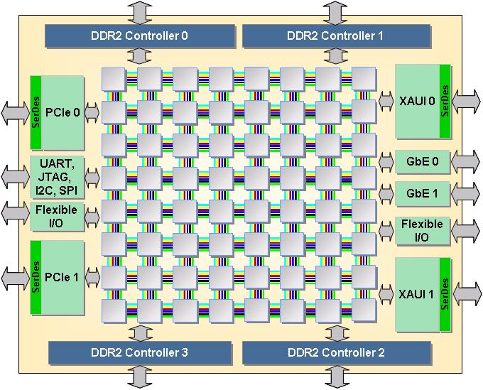 Block diagram of the Tilera TILEPro64 multicore processor